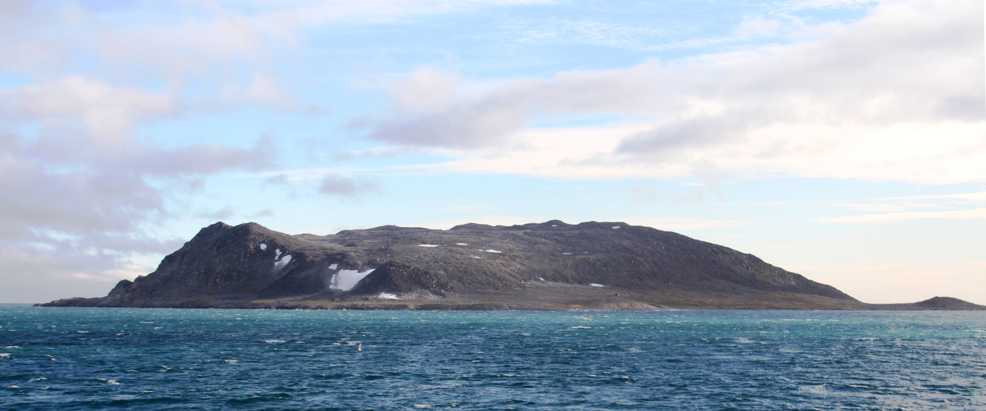 Ytre Norskøya, the northeastern of the five "Nordvestøyane2 islands around Fair Haven - northwestern Albert I Land, northwestern Spitsbergen.